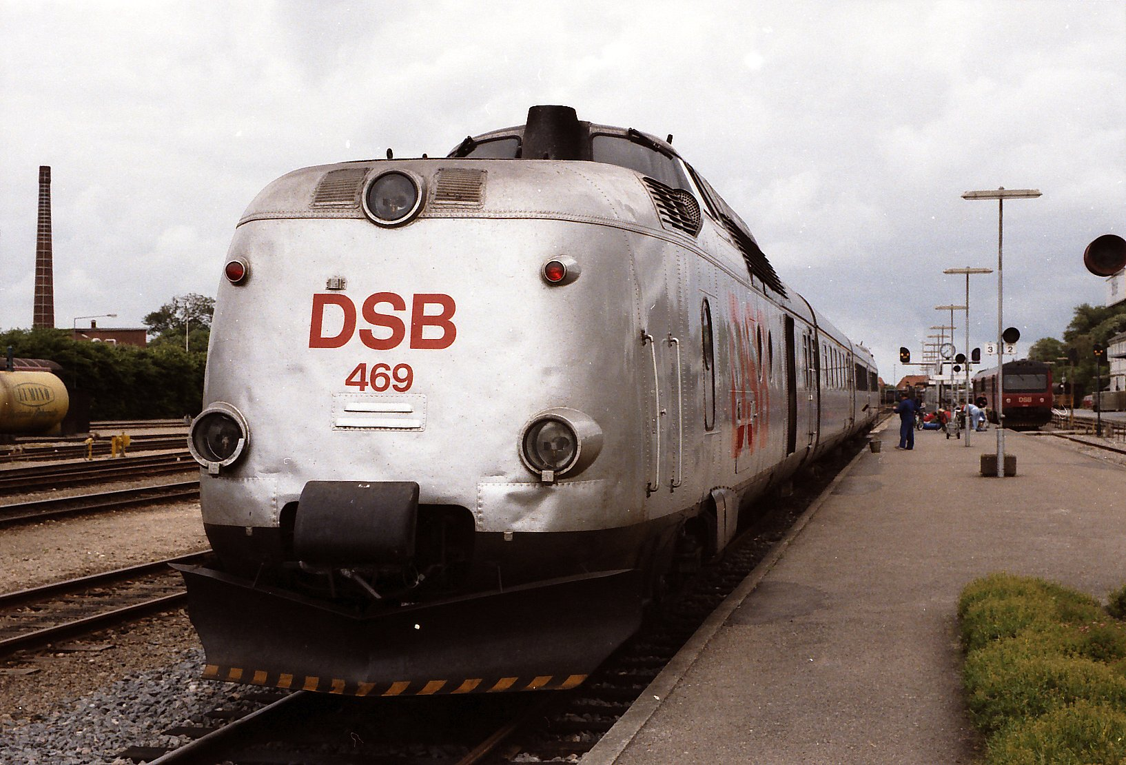 More pictures of this and other trains Was it better looking in red? It's a matter of taste I guess =) Danish Wiki about the "Lightning Train"